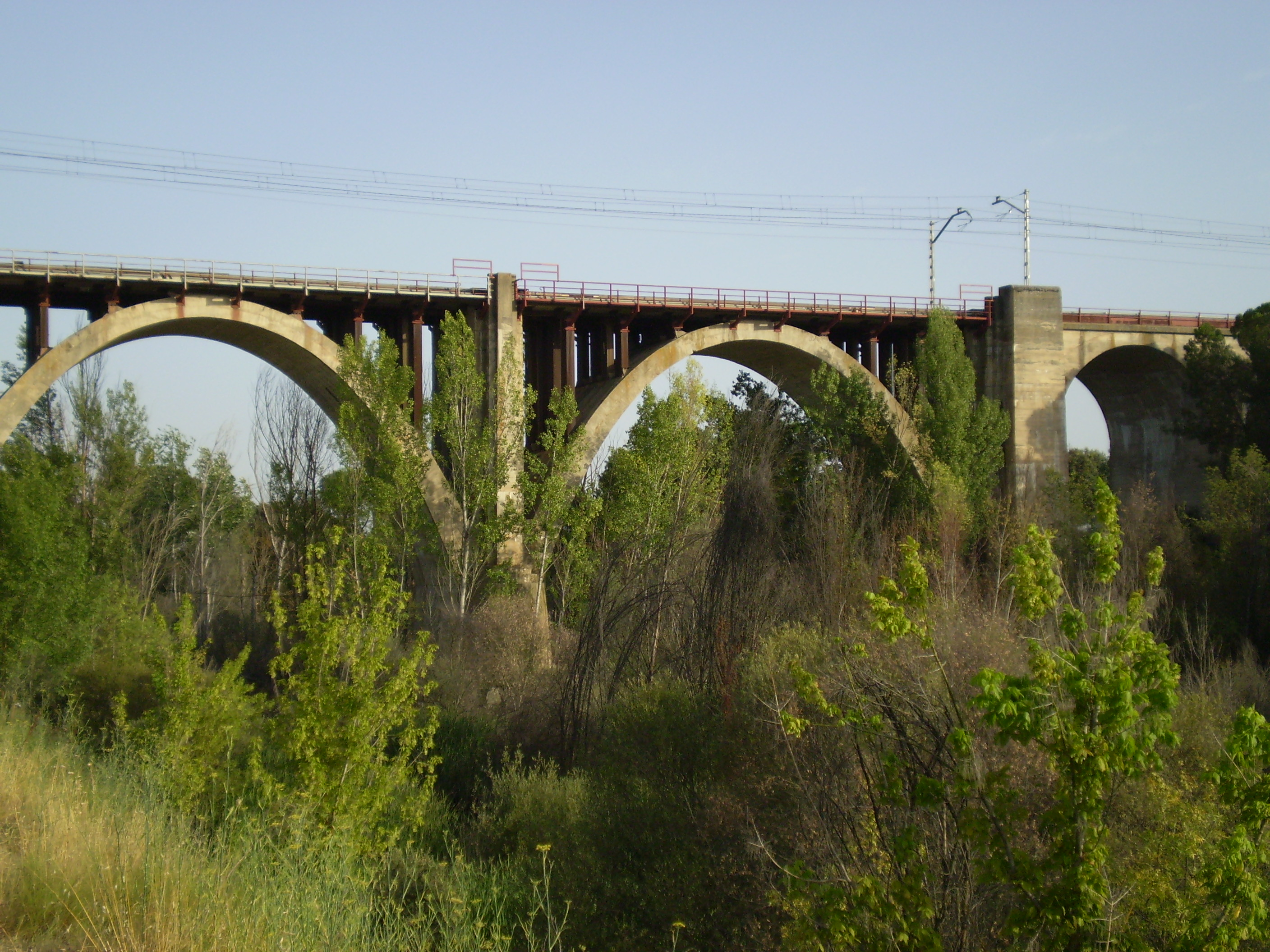 Bridge over Manzanares River. Monte de El Pardo. Community of Madrid, Spain